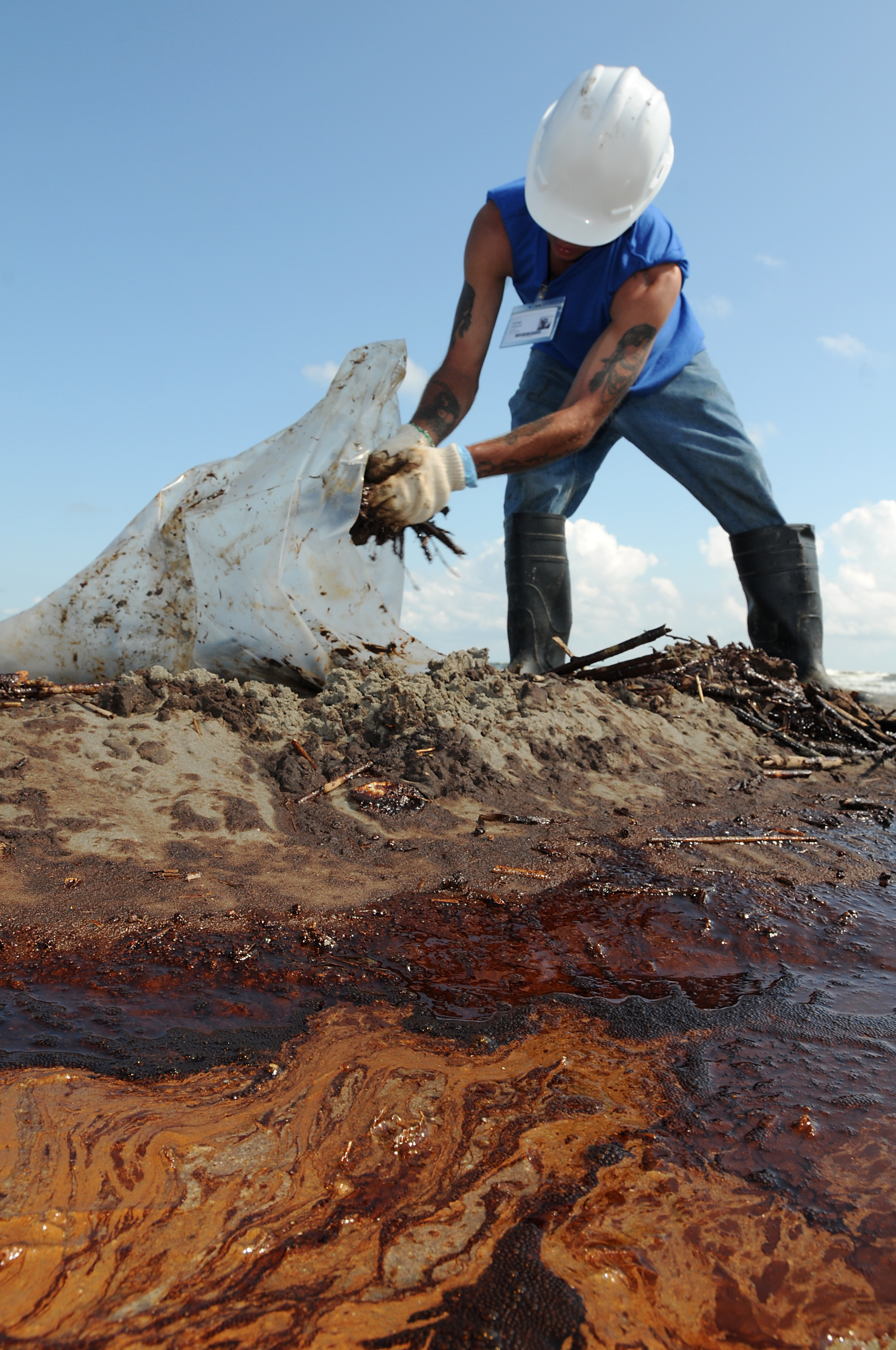 A worker cleans up oily waste on Elmer's Island, just west of Grand Isle, La., May 21, 2010. Hundreds of workers are cleaning up oil from the damaged Deepwater Horizon wellhead that finally reached the shore a month after the rig exploded, killing 11 people. U.S. Coast Guard Atlantic Area Photo by Petty Officer 3rd Class Patrick Kelley Date: 05.21.20105 Location: Grand Isle, US Related Photos